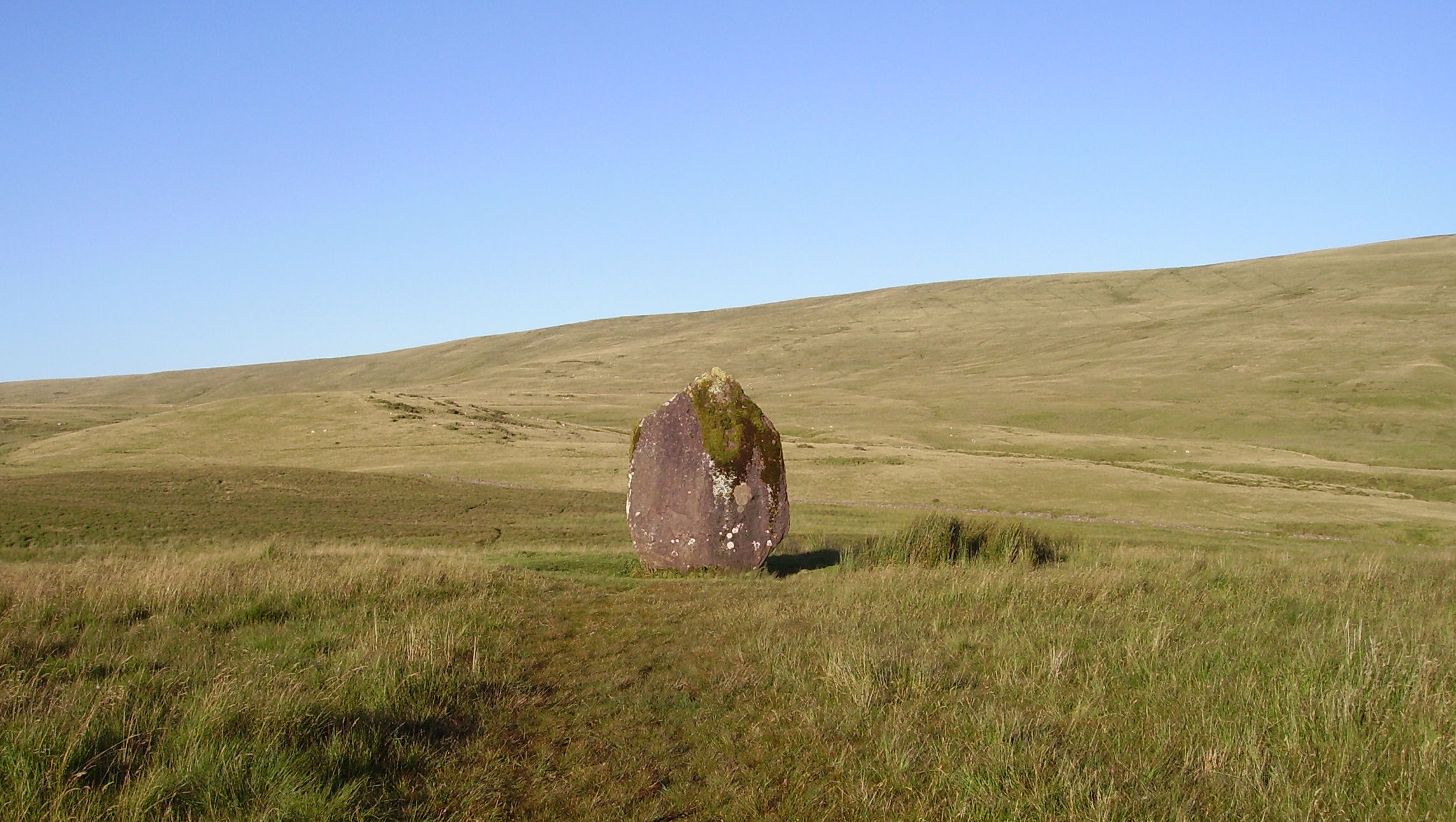 view of Brecon Beacons National Park in Wales